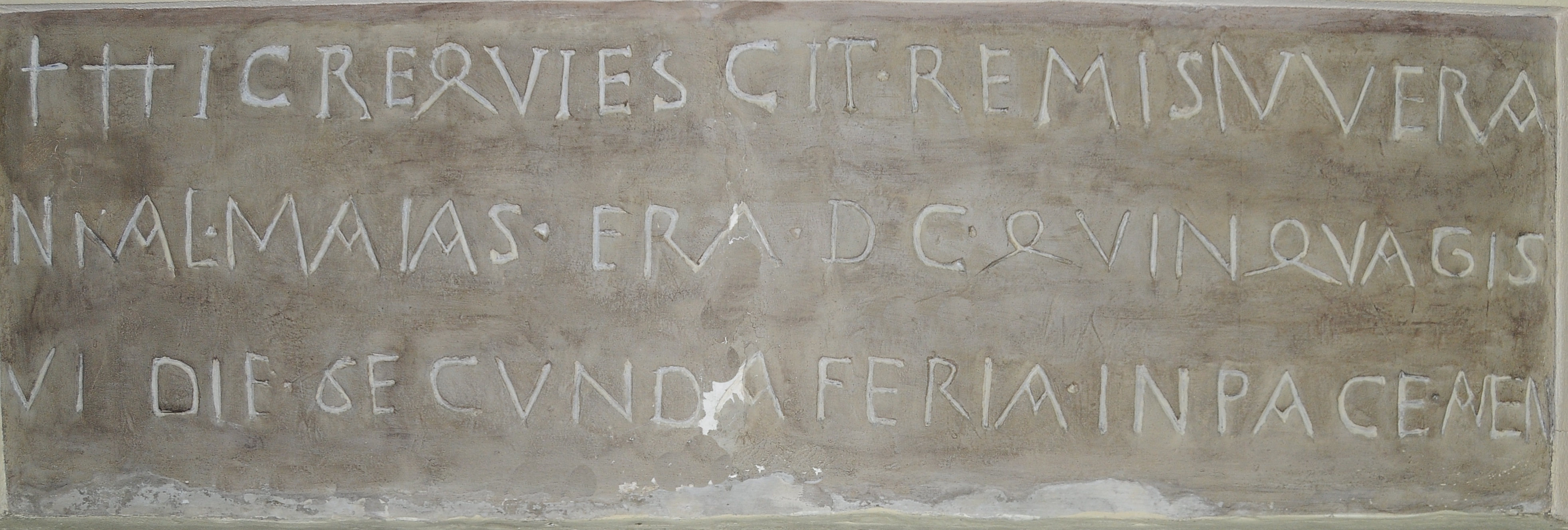 Plaque in the Sacristy of Saint Vincent church in Braga.